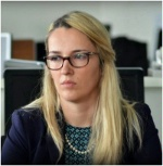 International Women of Courage Awards March 6, 2015